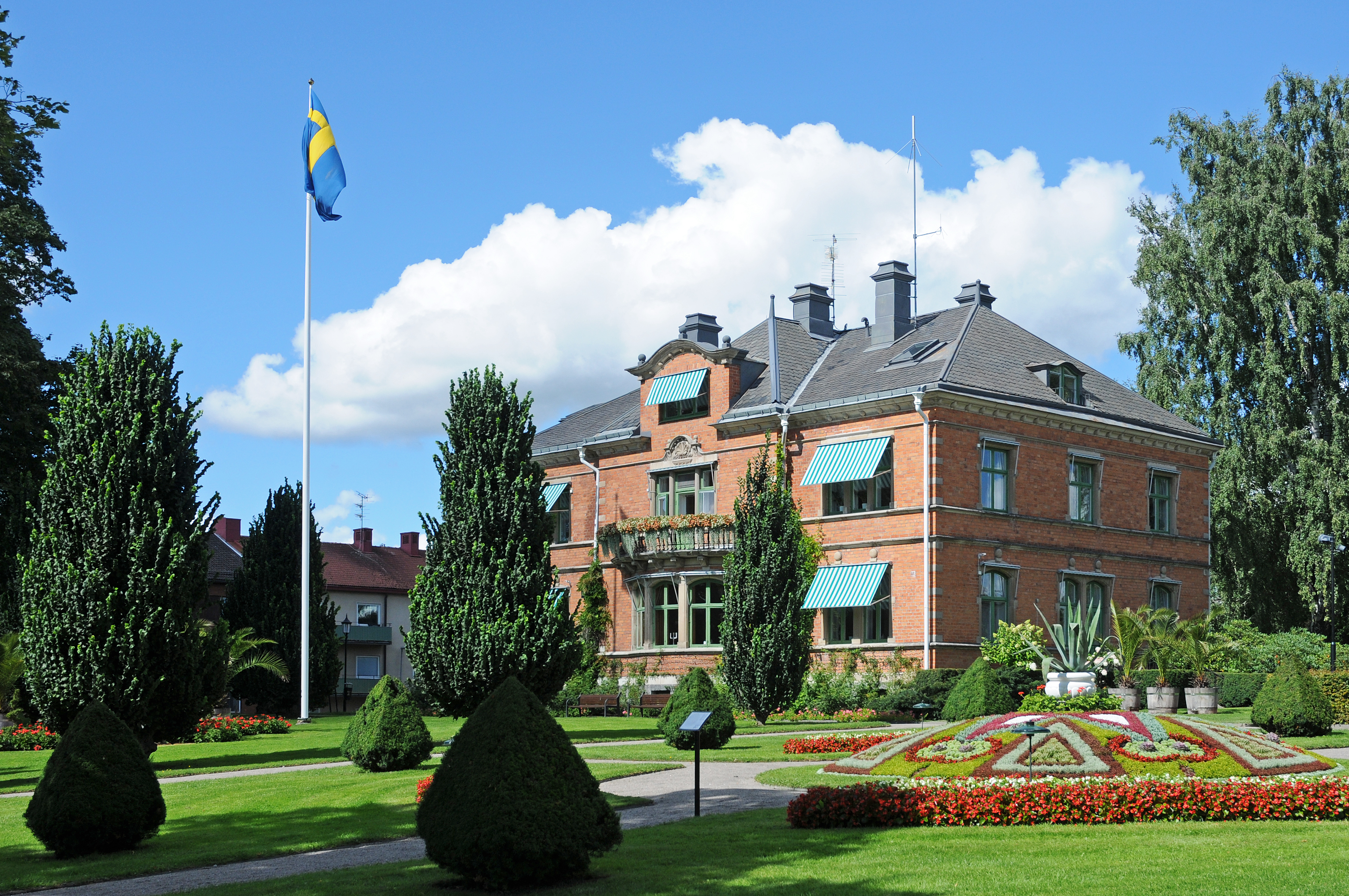 Municipal House in Katrineholm